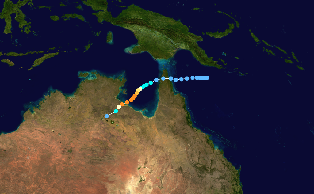 Track map of Severe Tropical Cyclone Kathy of the 1983-84 Australian region cyclone season. The points show the location of the storm at 6-hour intervals. The colour represents the storm's maximum sustained wind speeds as classified in the Saffir-Simpson Hurricane Scale (see below), and the shape of the data points represent the nature of the storm, according to the legend below. Saffir–Simpson hurricane wind scale Tropical depression≤38 mph≤62 km/h Category 3111–129 mph178–208 km/h Tropical storm39–73 mph63–118 km/h Category 4130–156 mph209–251 km/h Category 174–95 mph119–153 km/h Category 5≥157 mph≥252 km/h Category 296–110 mph154–177 km/h Unknown Storm typeTropical cycloneSubtropical cycloneExtratropical cyclone / Remnant low / Tropical disturbance